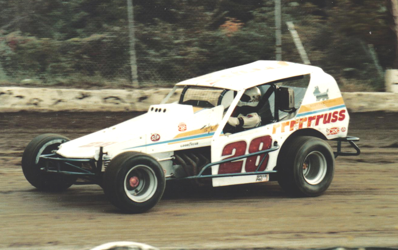 Tighe Scott was a top driver at Orange County Fair Speedway and Nazareth Speedway in the Mid 70's. After driving in NASCAR for a few years, Tighe returned to modified racing in the early 80's and recorded a couple of more Middletown, NY (OCFS) wins.